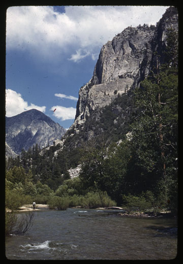 1940 color Kodachrome 35mm slide of Kings Canyon National Park's Zumwalt Meadows photographed by National Park Service photographer George A. Grant.